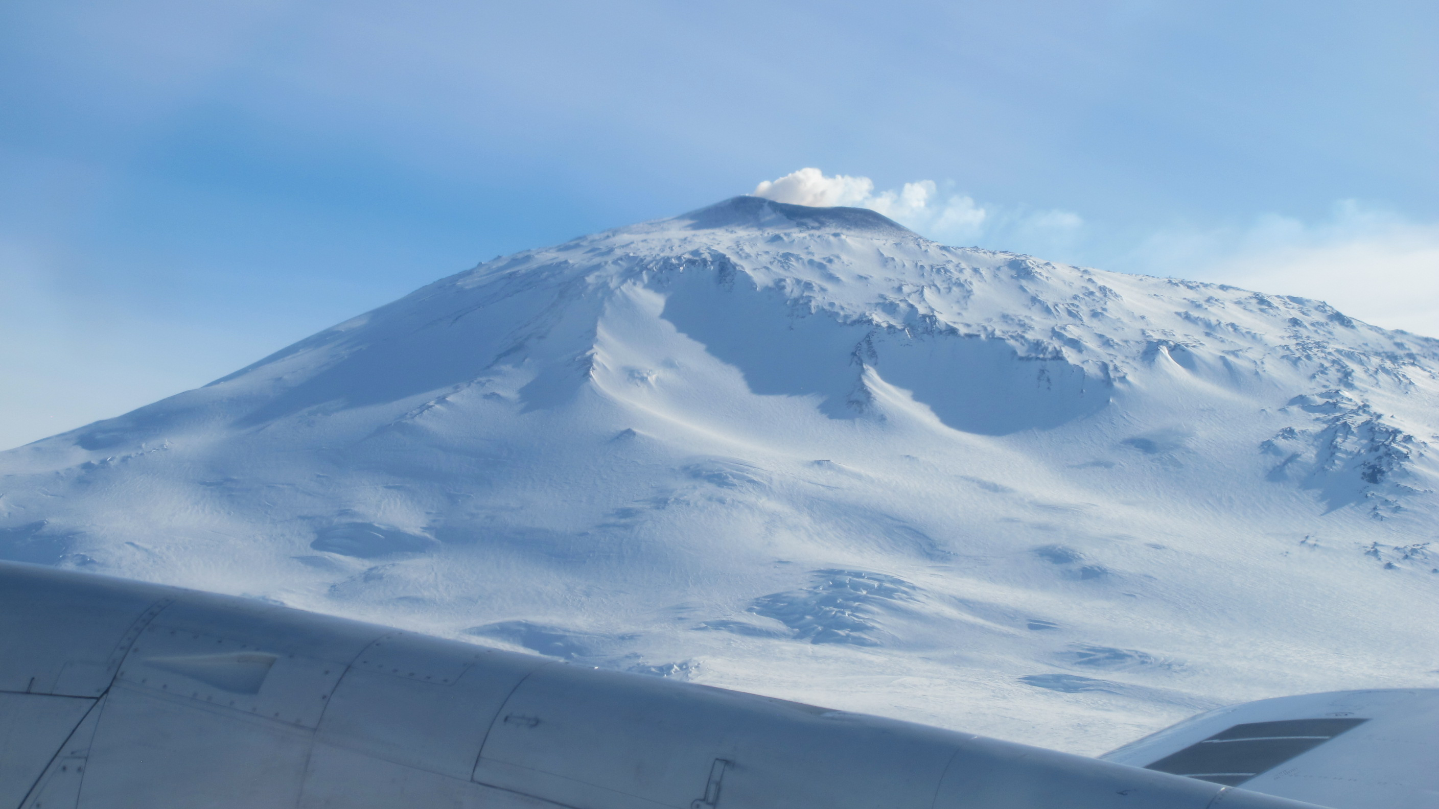 Antarctic volcano Mount Erebus seen over the NASA P-3's right wing during the approach to McMurdo Station's sea ice airfield following an IceBridge survey of sea ice in the Ross Sea on Nov. 21, 2013.